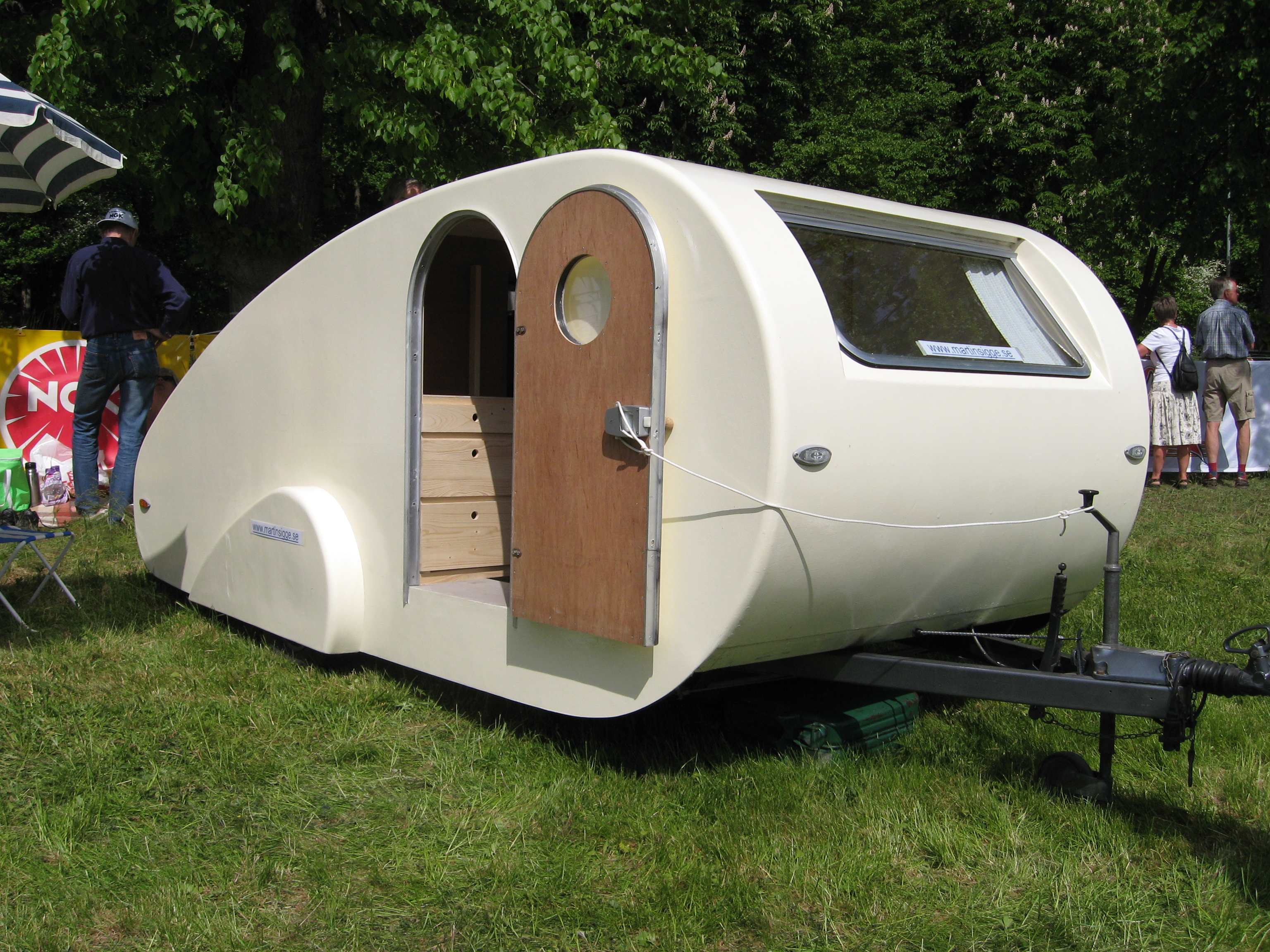 Teardrop trailer at Prins Bertil Memorial 2008. Builder's site at